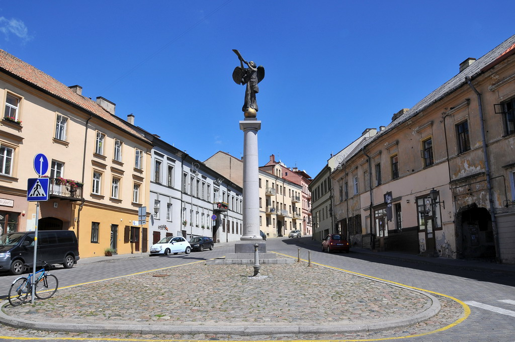 On April 4, 2002, a statue of an angel blowing a trumpet was unveiled in the main square. It was intended to symbolize the revival and artistic freedom of the district. In 1997, the residents of the area declared a Republic of Užupis, with its own flag, currency, president, constitution, and an army (numbering approximately 17 men). They celebrate this independence annually on Užupis Day, which falls on April 1st. Artistic endeavours are the main preoccupation of the Republic and indeed the current President of the Republic of Užupis, Romas Lileikis, is himself a poet, musician, and film director. Bron: Wikipedia